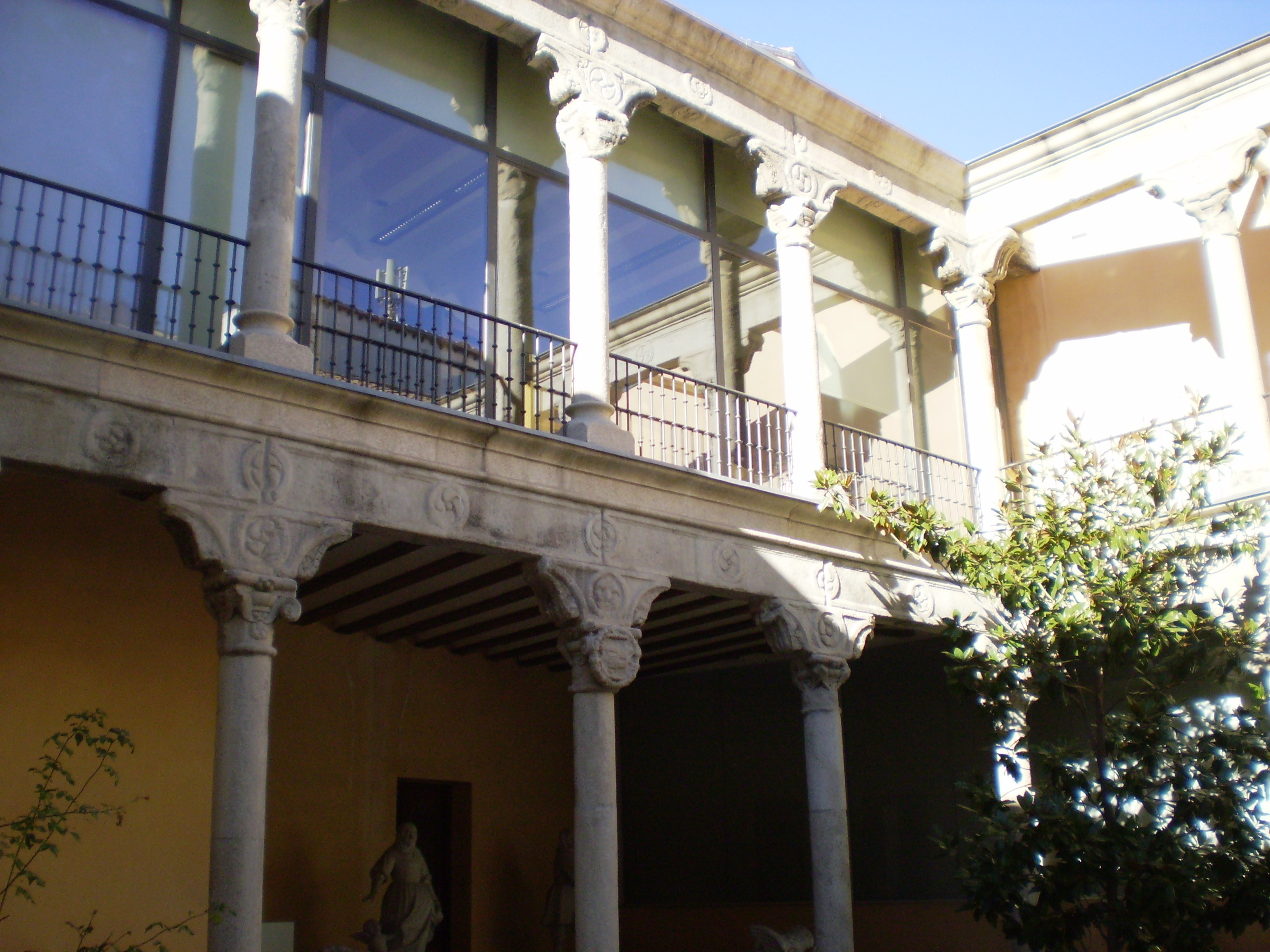 Museo de los Orígenes (museum). Madrid, Spain.